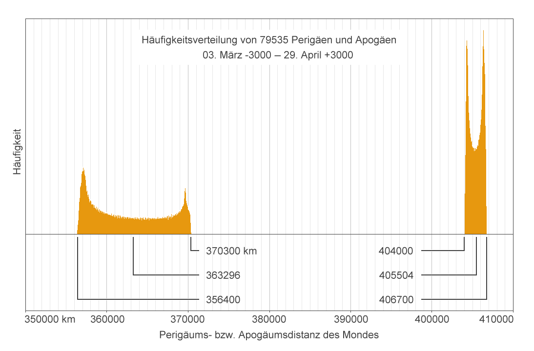 Distribution of 79535 lunar perigees and apogees occurring between March 3, -3000 and April 29, +3000. Drawn by myself. Based on minimum and maximum distances read from JPL's DE406 ephemeris.